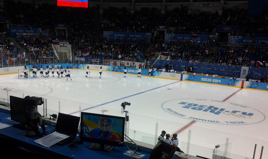 Atos - at the Olympic Winter Games - Ice Hockey- womens Russia - Japan - February 11 2014jpg